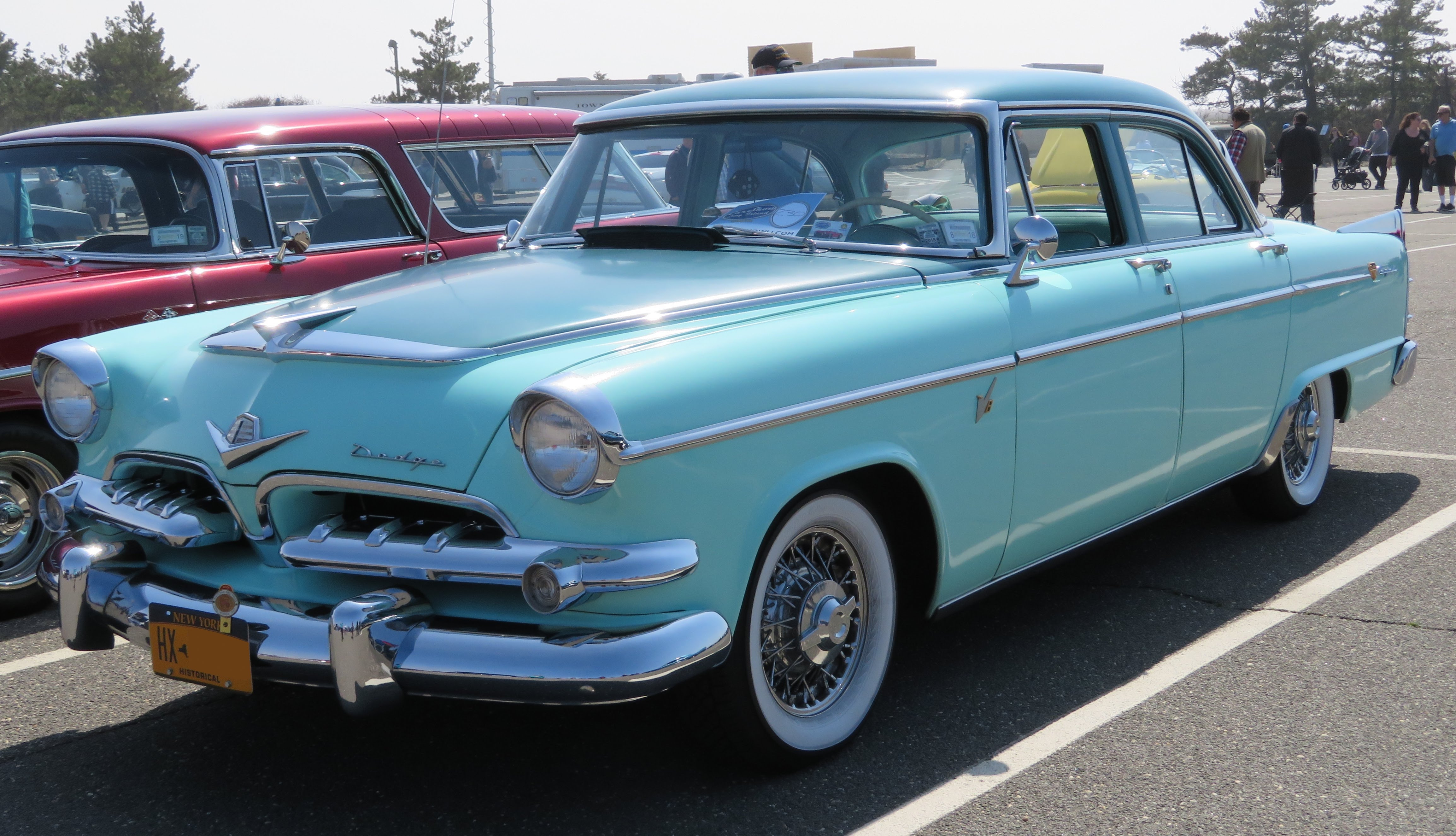 In Today Beach Car Show, Long Island, New York